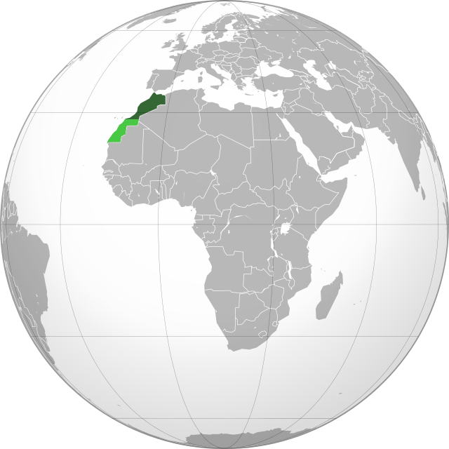 Locator maps of Morocco and Western Sahara